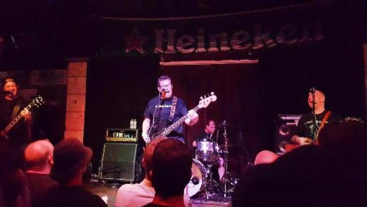 Quit Reunion show. Tampa, FL. Playing live.